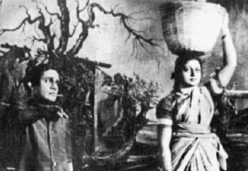 Screenshot from 1949 Tamil film Velaikaari